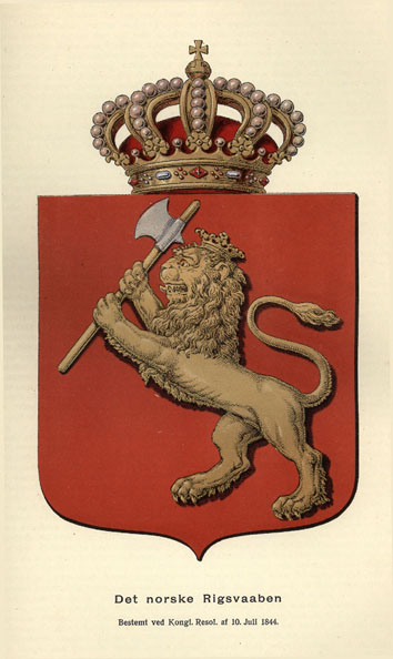 Coat of arms of Norway 1844